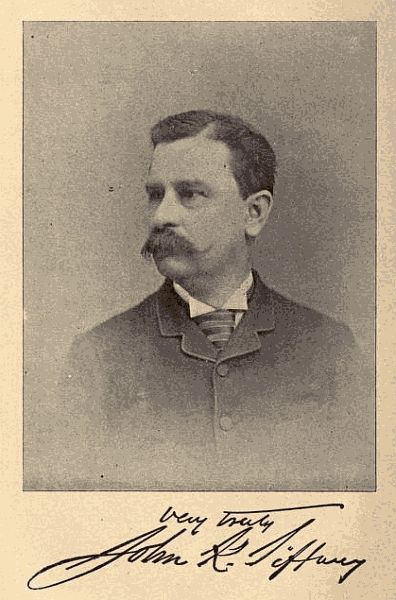 Scan from: HISTORY OF THE Postage Stamps — OF THE — UNITED STATES OF AMERICA.